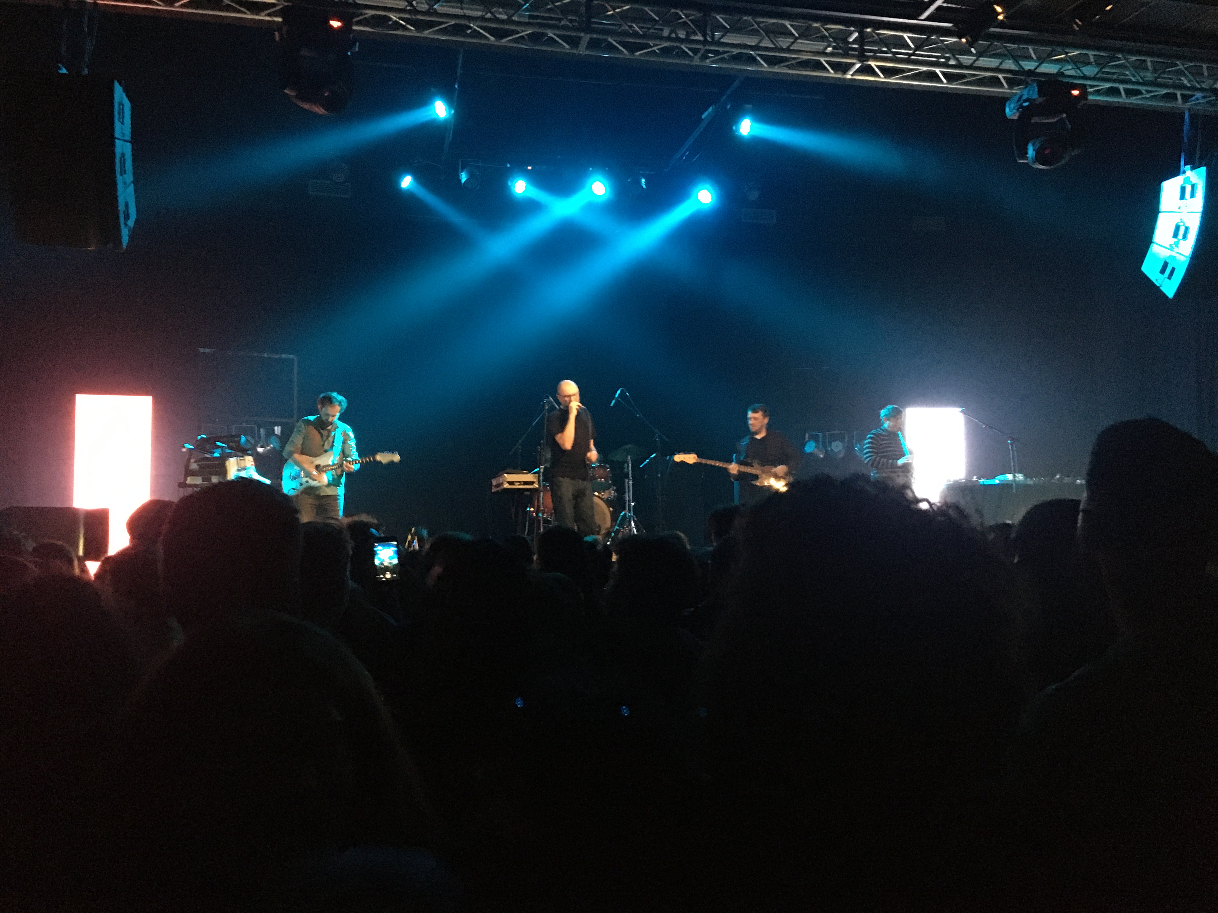 Foltin performing at the Youth Cultural Centre in Skopje on 14 February 2020